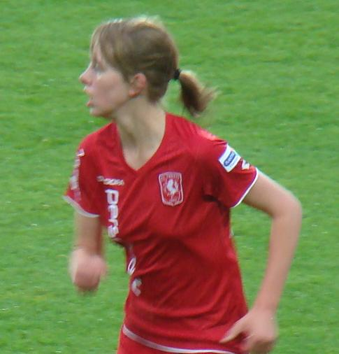 FC Twente player Marianne van Brummelen